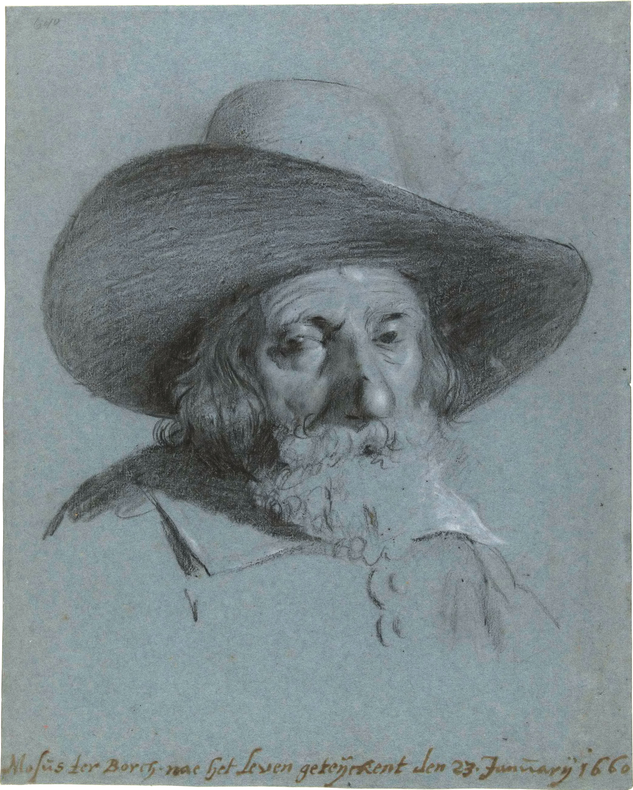 Gerard ter Borch (I) black chalk, heightened with white chalk, some black brush, on blue paper 28.7 x 23 cm inscribed b.: Mosus ter Borch. nae het leven geteijckent den 23. Januarij 1660